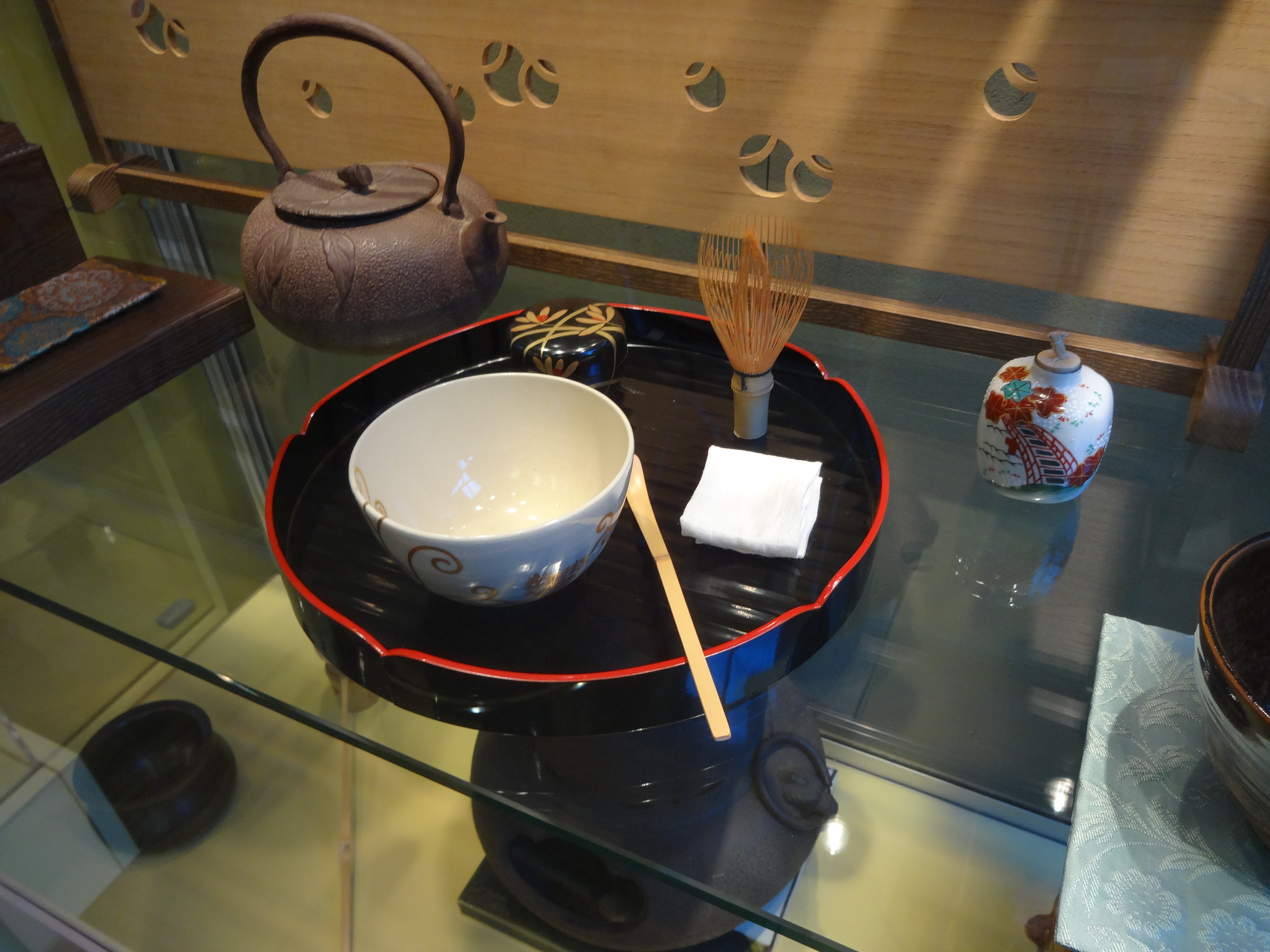 Tea ceremony implements at the Sōkiku Nakatani Tea Room and Garden, California State University, Sacramento, United States